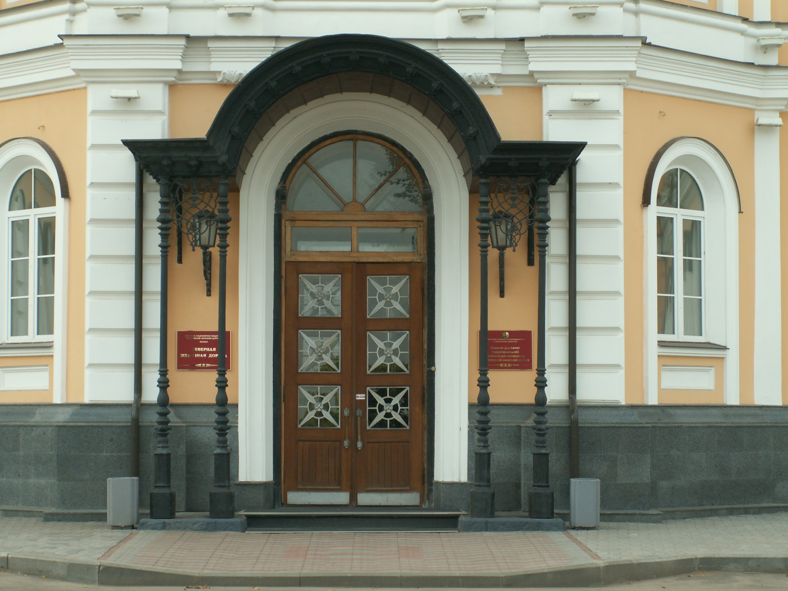 Entrance to the Northern Railway administration building (Yaroslavl, Russia)